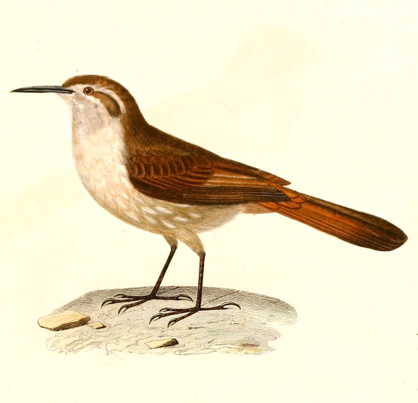 « Uppucerthia montana » = Ochetorhynchus ruficaudus montanus (Subspecies of Straight-billed Earthcreeper)